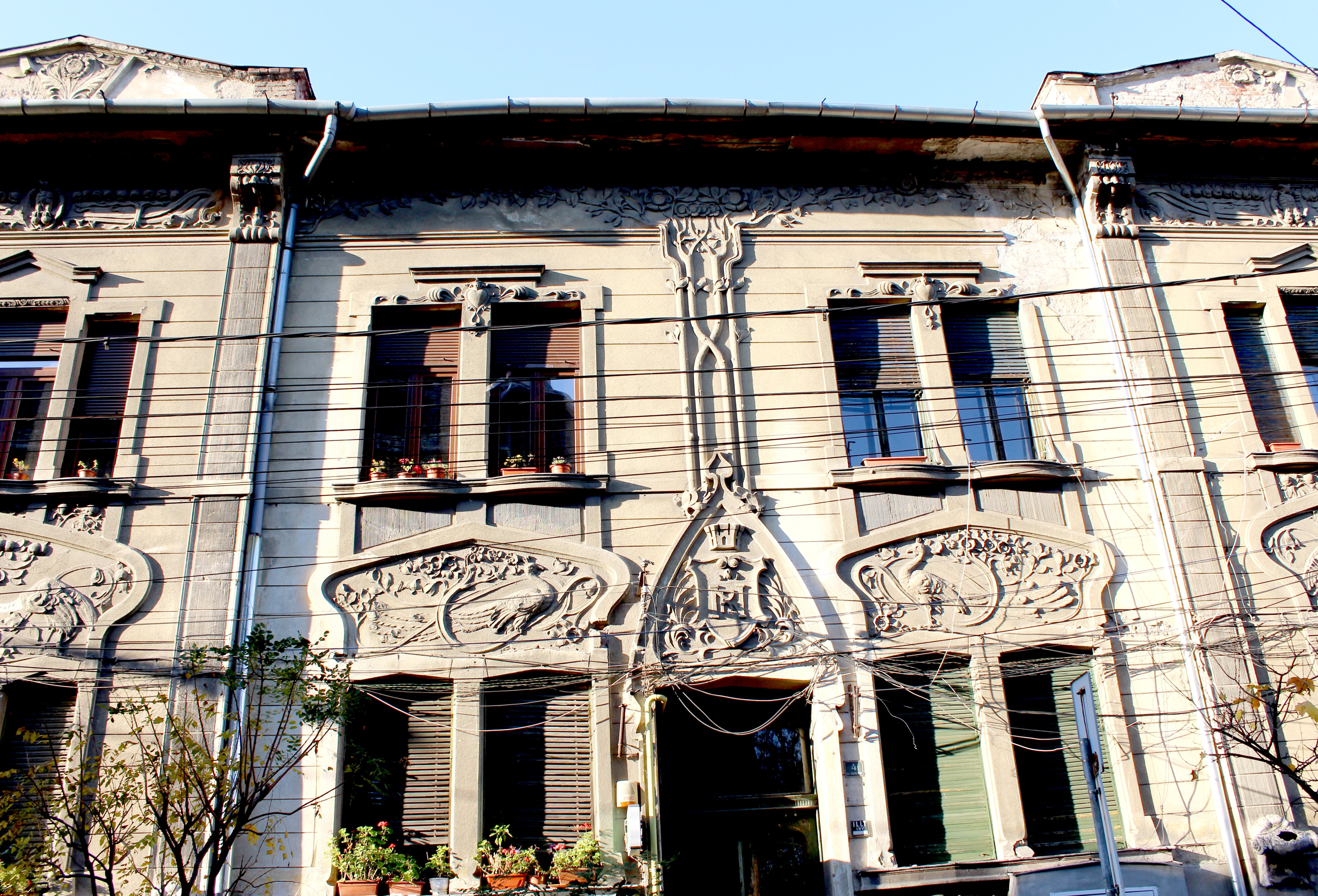 Romulus Nicolin House, Timișoara, Romania, built 1904